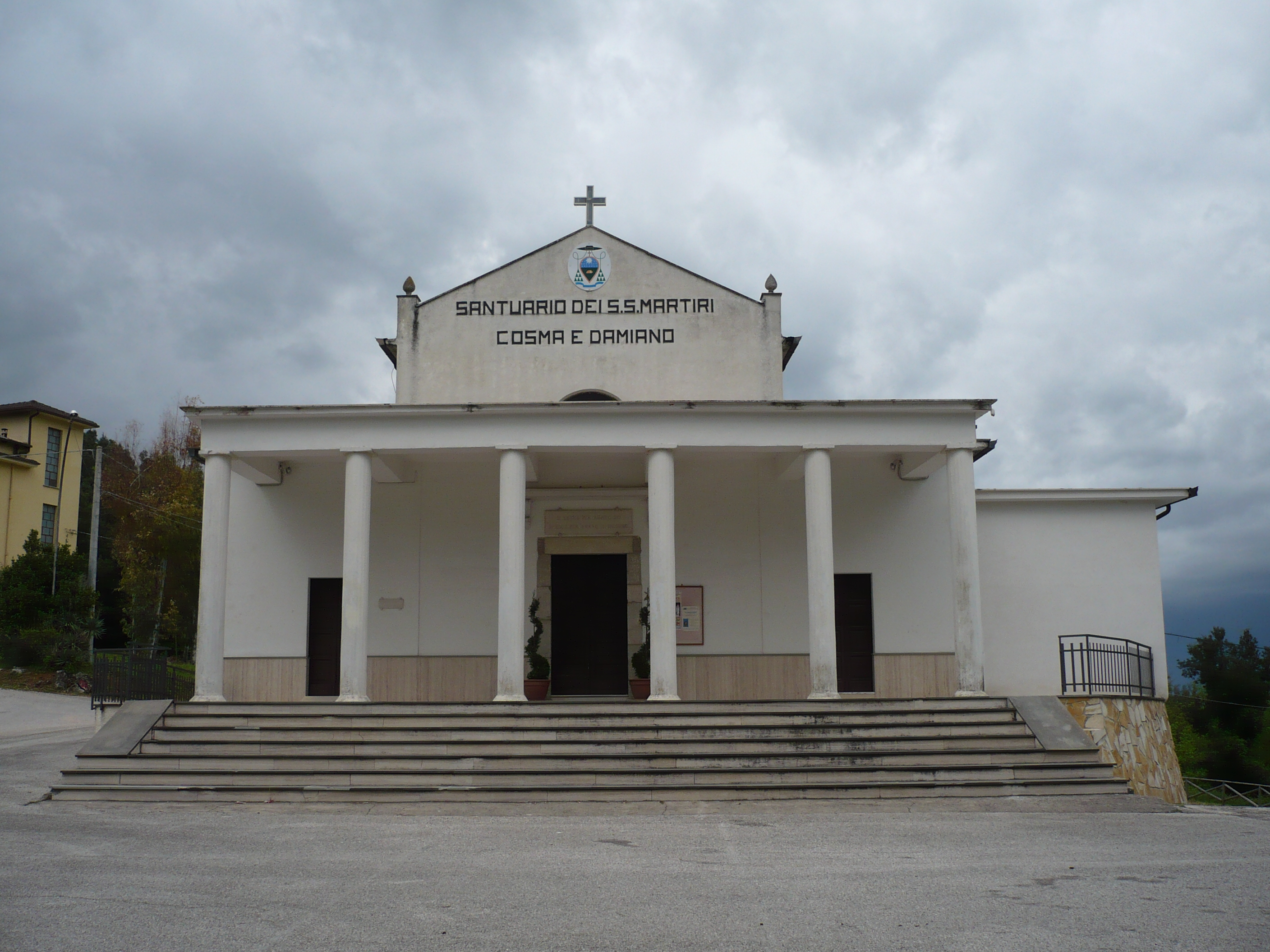 Santi Cosma e Damiano sanctuary in countryside of Pontecorvo, Province of Frosinone, Latium Region, Italy.